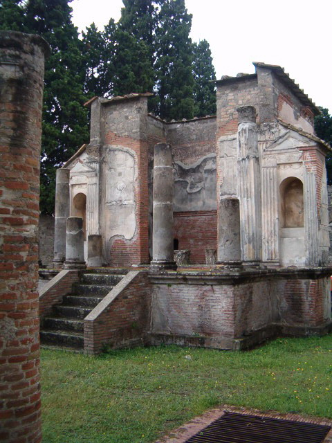 Pompeii. Temple of Isis.